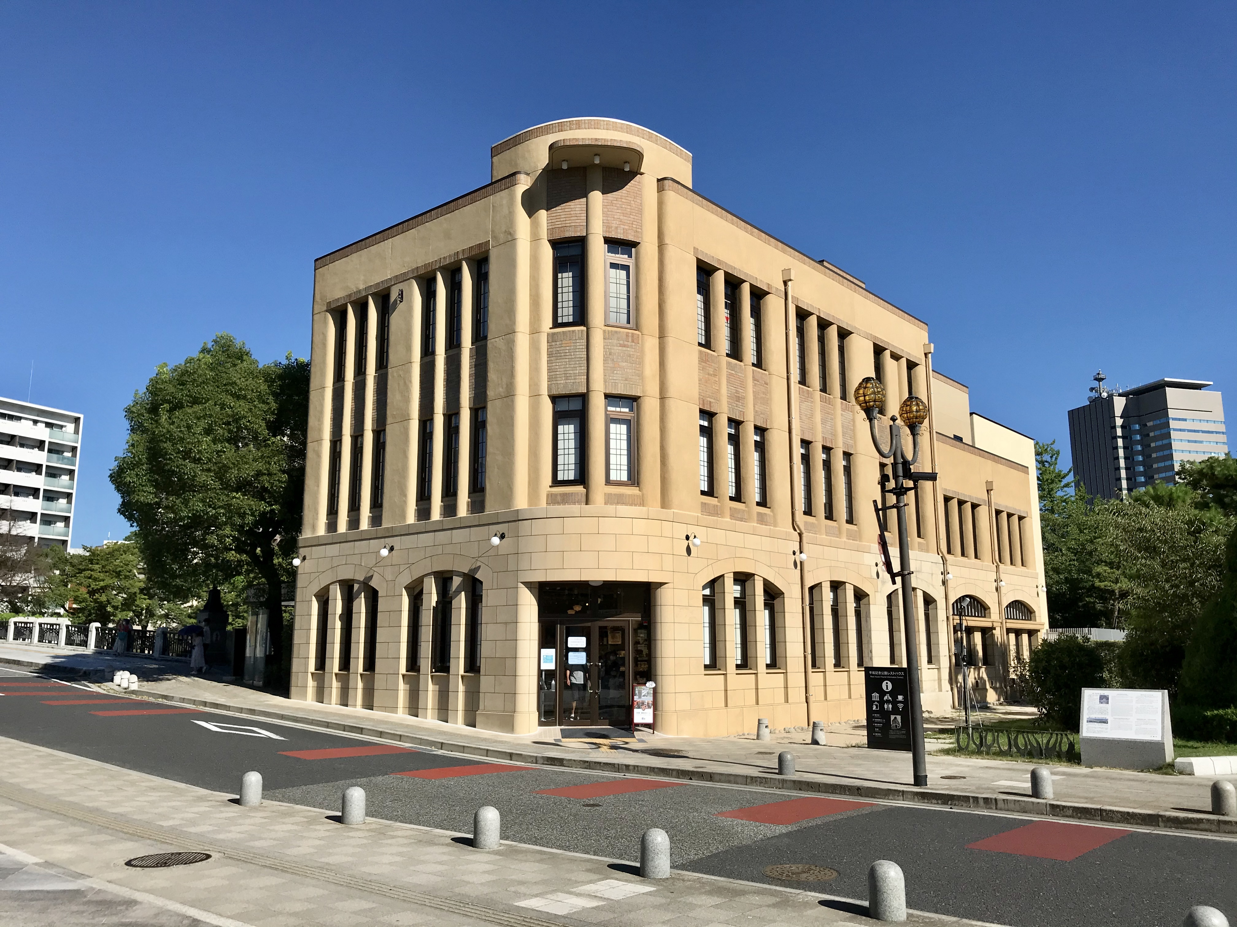 Rest House of Hiroshima Peace Park after renewal